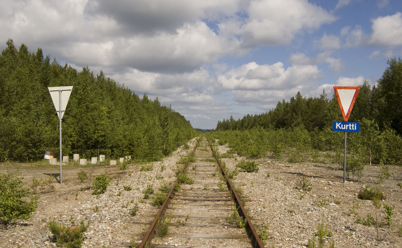 Station signs marking the location of Kurtti station on Kontiomäki–Taivalkoski railway. After the sidings had been removed, the station served as a location where the driver had request a permission to proceed if so indicated by timetable. The station as well as the Pesiökylä–Taivalkoski line have been closed.